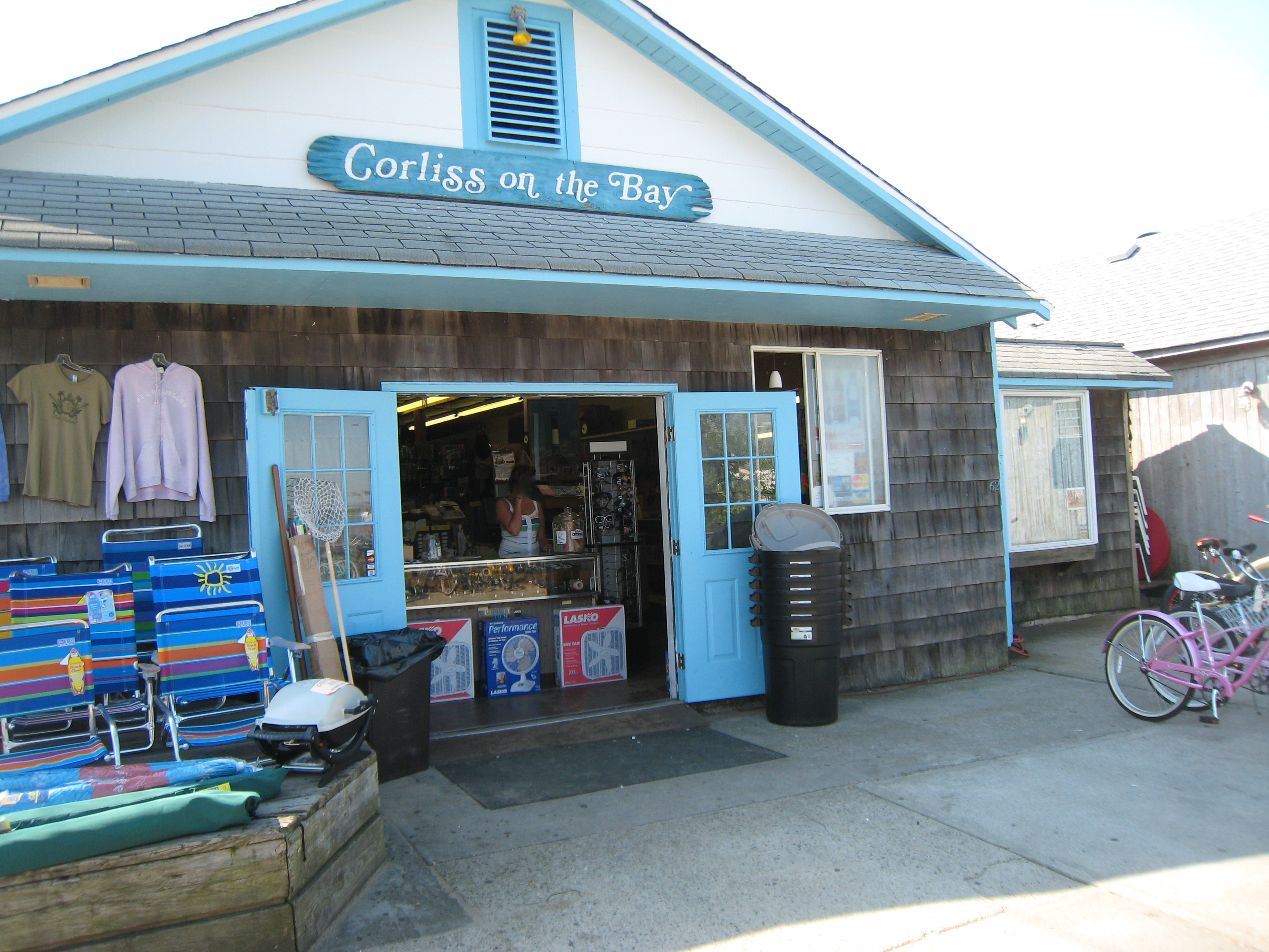 An Image of the Corliss Hardware/Toy/Apparel store. The employee's face has been removed for privacy.